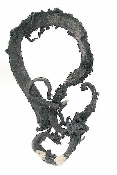 Silver Locality: Zhezqazghan Oblysy (Dzezkazgan Oblast'; Dzhezkazgan Oblast'; Djezkazgan Oblast'; Jezkazgan Oblast'), Kazakhstan (Locality at ) An elegant curlicue of pure silver! This wire of silver has formed a complete circular loop, giving it an extremely aesthetic appearance. This could well be a competition miniature. This famous silver and coppe rmine has lately been producing copper specimens, while these silvers were found in the early 1990s. 3.5 x 1.9 x 0.3 cm